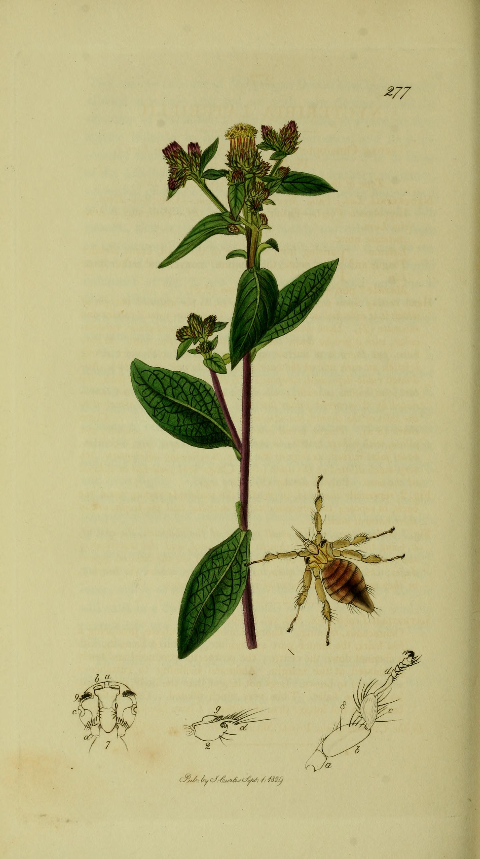 John Curtis British Entomology (1824-1840) Folio 277 Diptera: Nycteribia latreillii = Nycteribia kolenatii (Small Bat-louse).The plant is Inula conyza (Great Flea-bane)